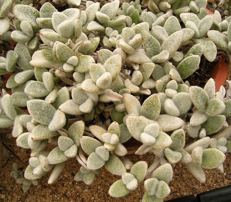 Kalanchoe eriophylla